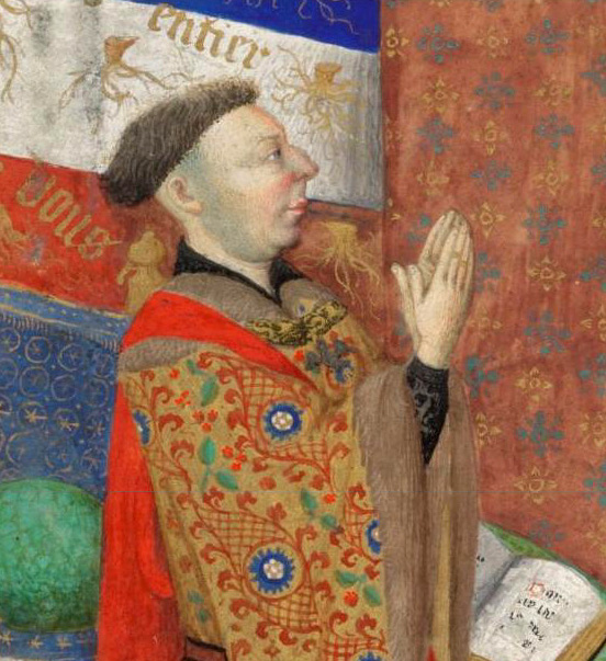 John, Duke of Bedford, praying before St George; from BL Add MS 18850, f. 256v (the "Bedford Hours"). Held and digitised by the British Library.